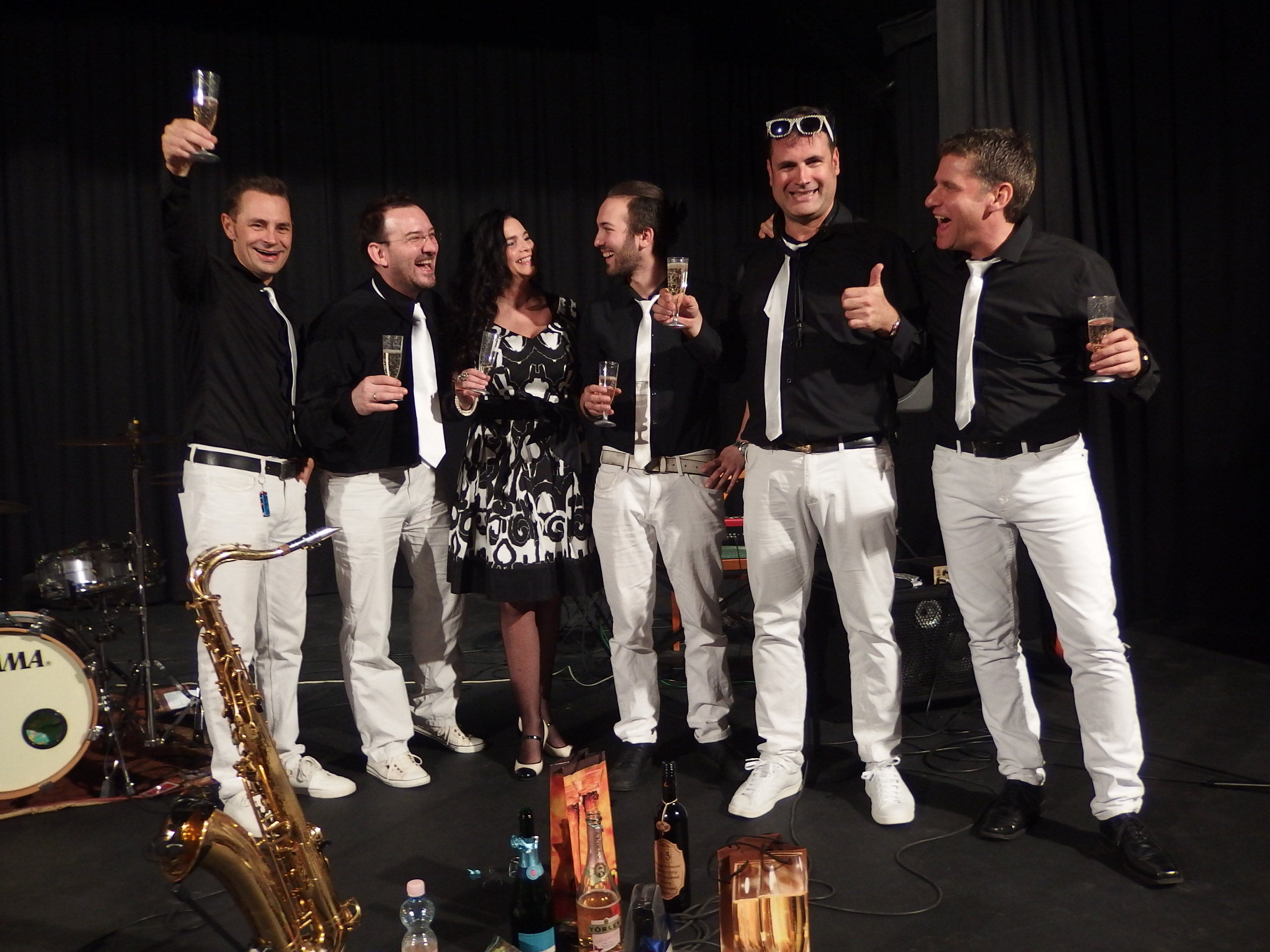 Pedrofon, Hungarian rock and roll band's 15th anniversary birthday concert